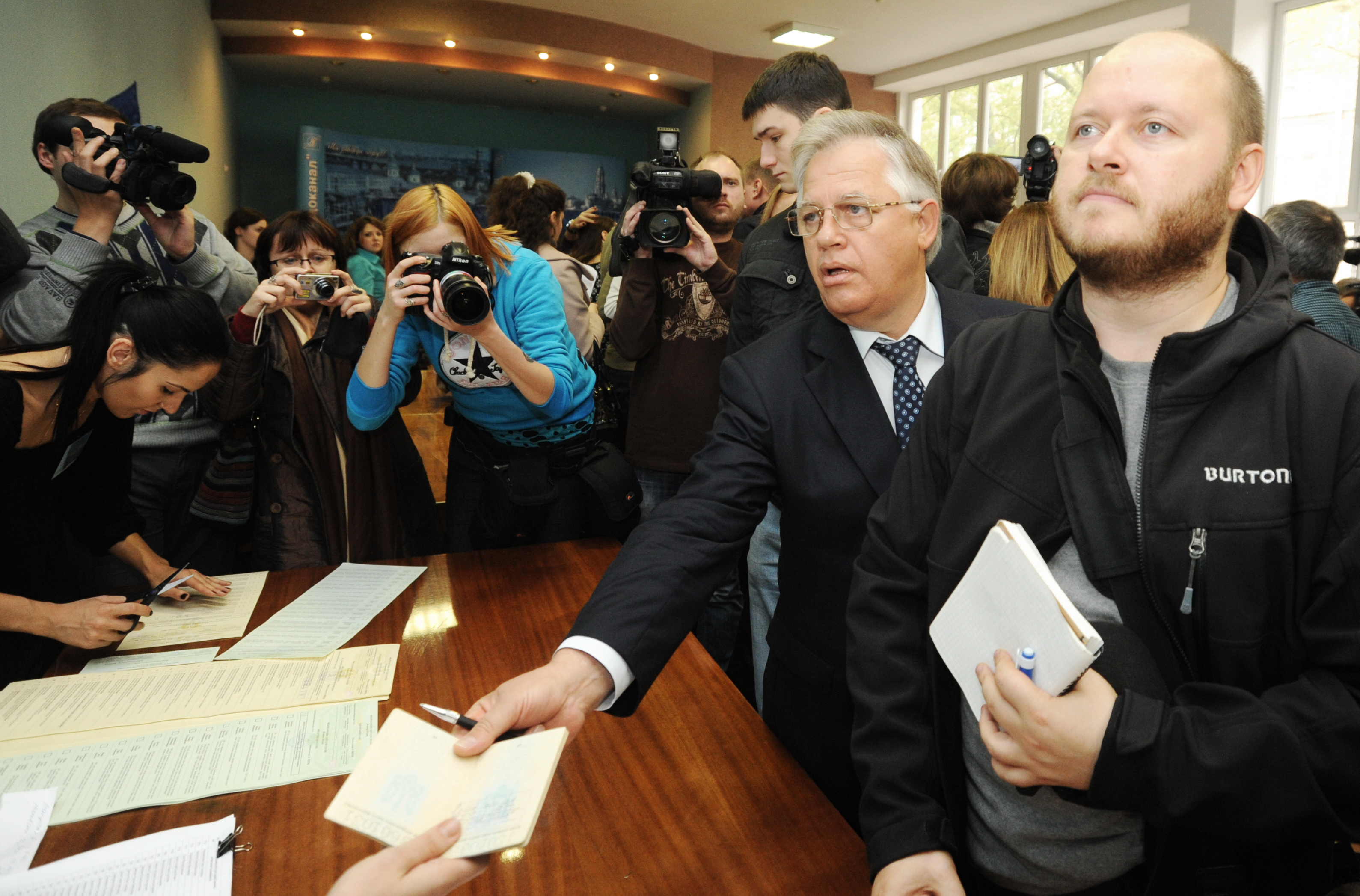 Petro Symonenko Ukrainian parliamentary election, 2012